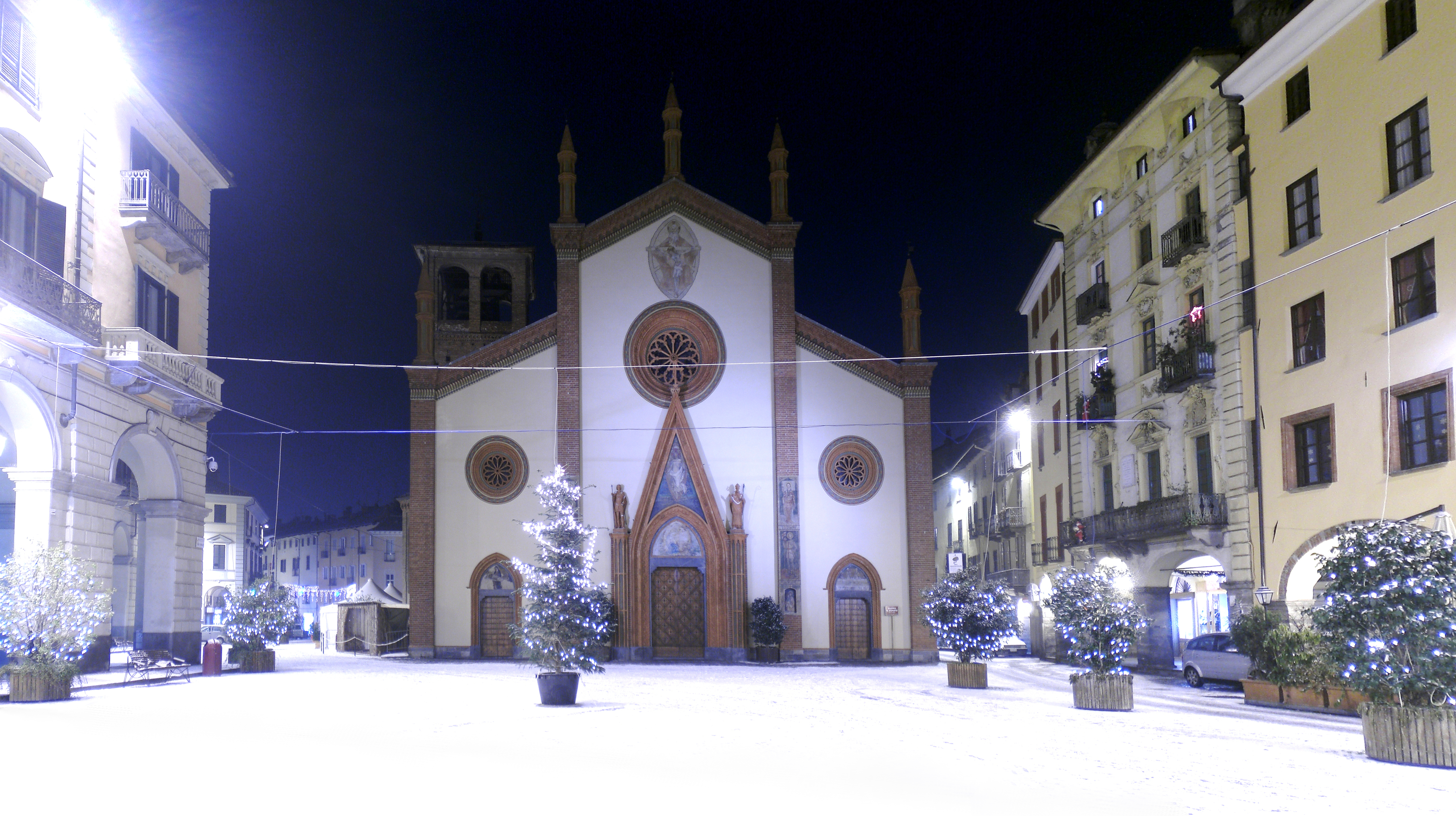 San Donato square in Pinerolo, a city near Torino in Piedmont, Italy.